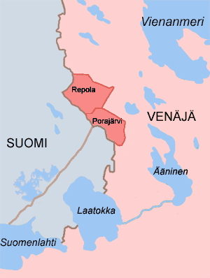 The parishes of Repola and Porajärvi.